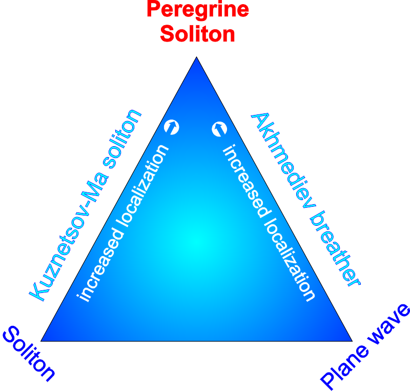 Peregrine soliton and other nonlinear solutions. Links between various solutions of the Nonlinear Schrödinger Equation. The present figure is based on a discussion that has appeared in the article entitled "Extreme waves that appear from nowhere: On the nature of rogue waves" by N. Akhmediev, J.M. Soto-Crespo and A. Ankiewicz published in Physical Letters A, 373, 2137-2145 (2009)